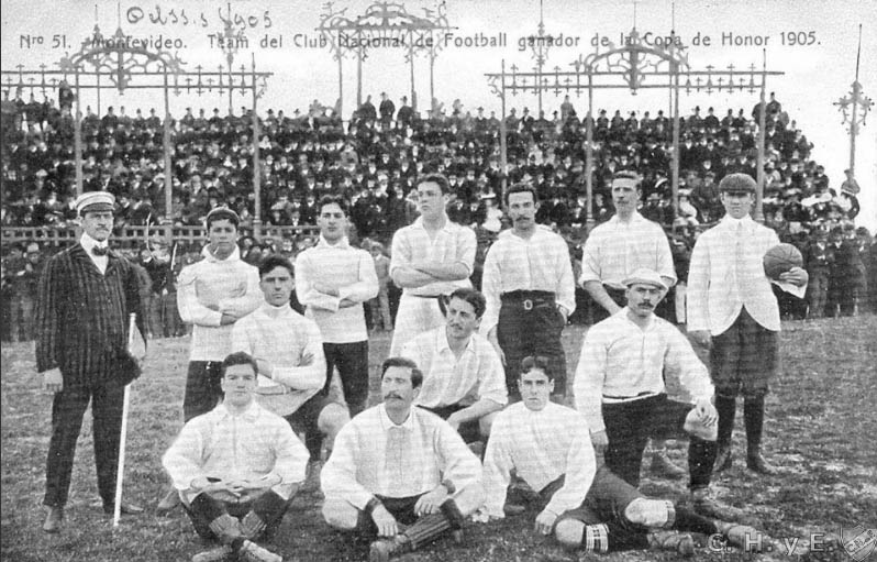 Uruguayan team Club Nacional de Football that won the Copa de Honor Cusenier defeating legendary Argentine team Alumni at the final.